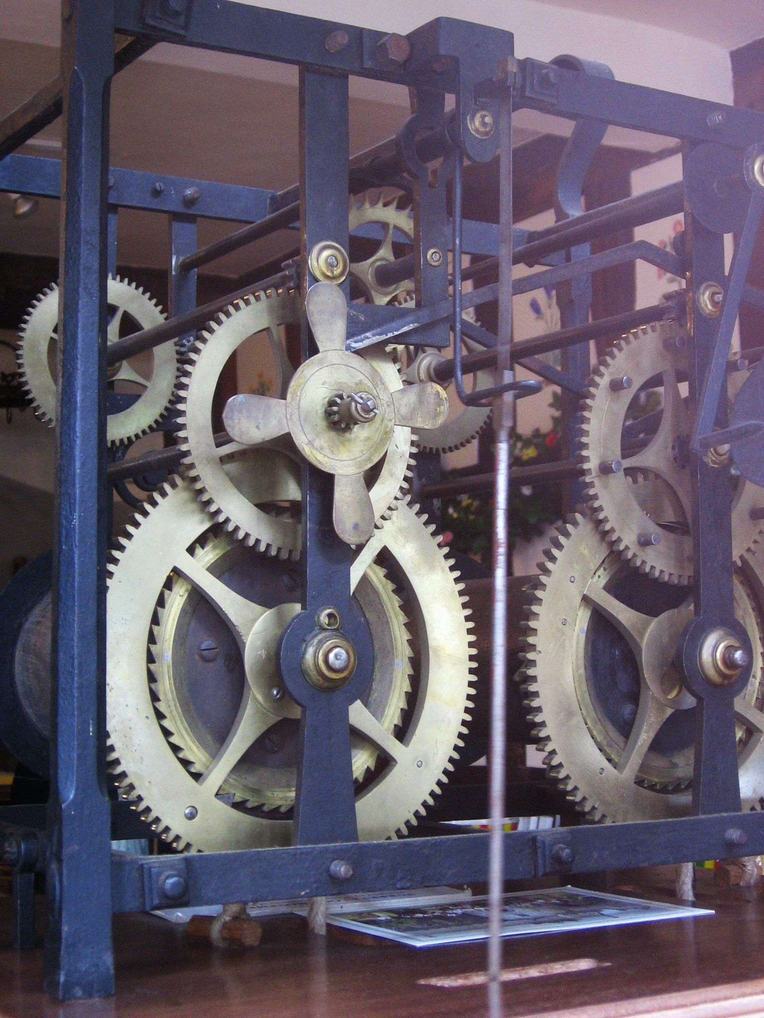 Turret clock by Wm Stumbels displayed in windows of Totnes Museum (UK)